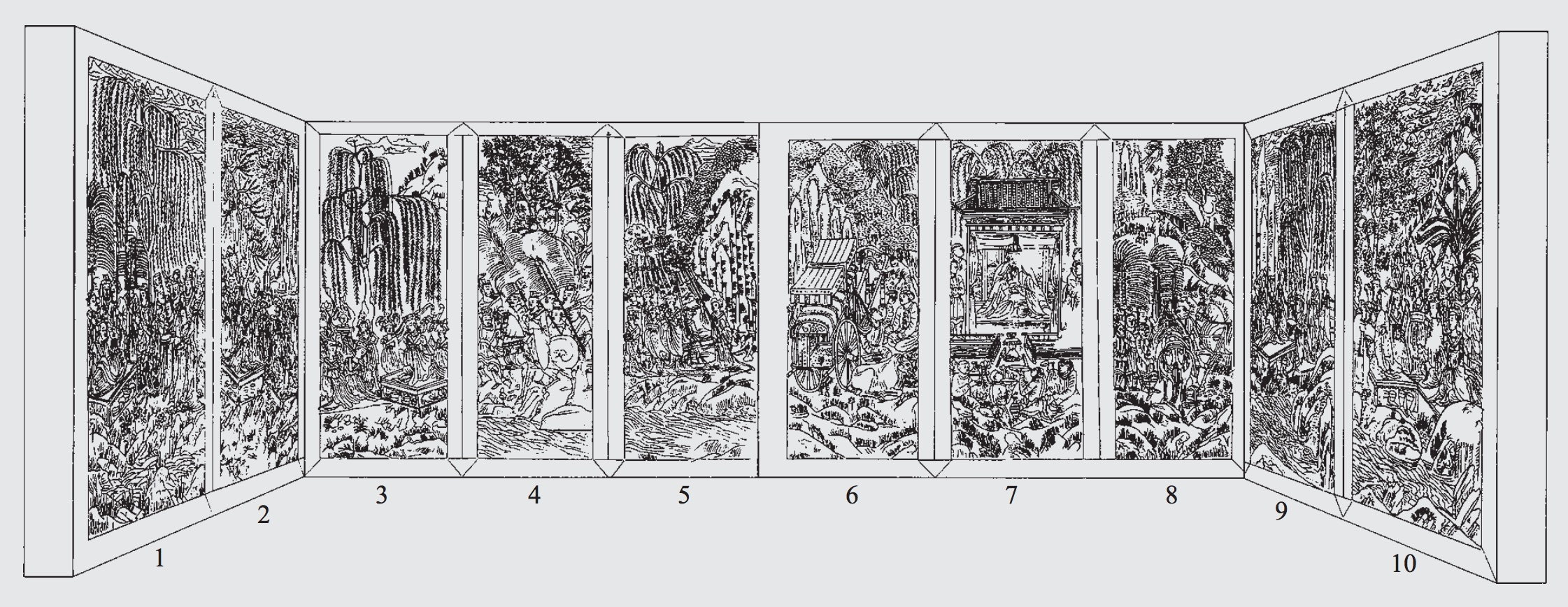 Copy of the 10 panels of the stone couch discovered at the tomb of Kʻang Yeh.